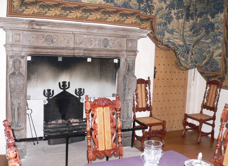 Argyll's Lodging, Stirling, Scotland - Drawing Room